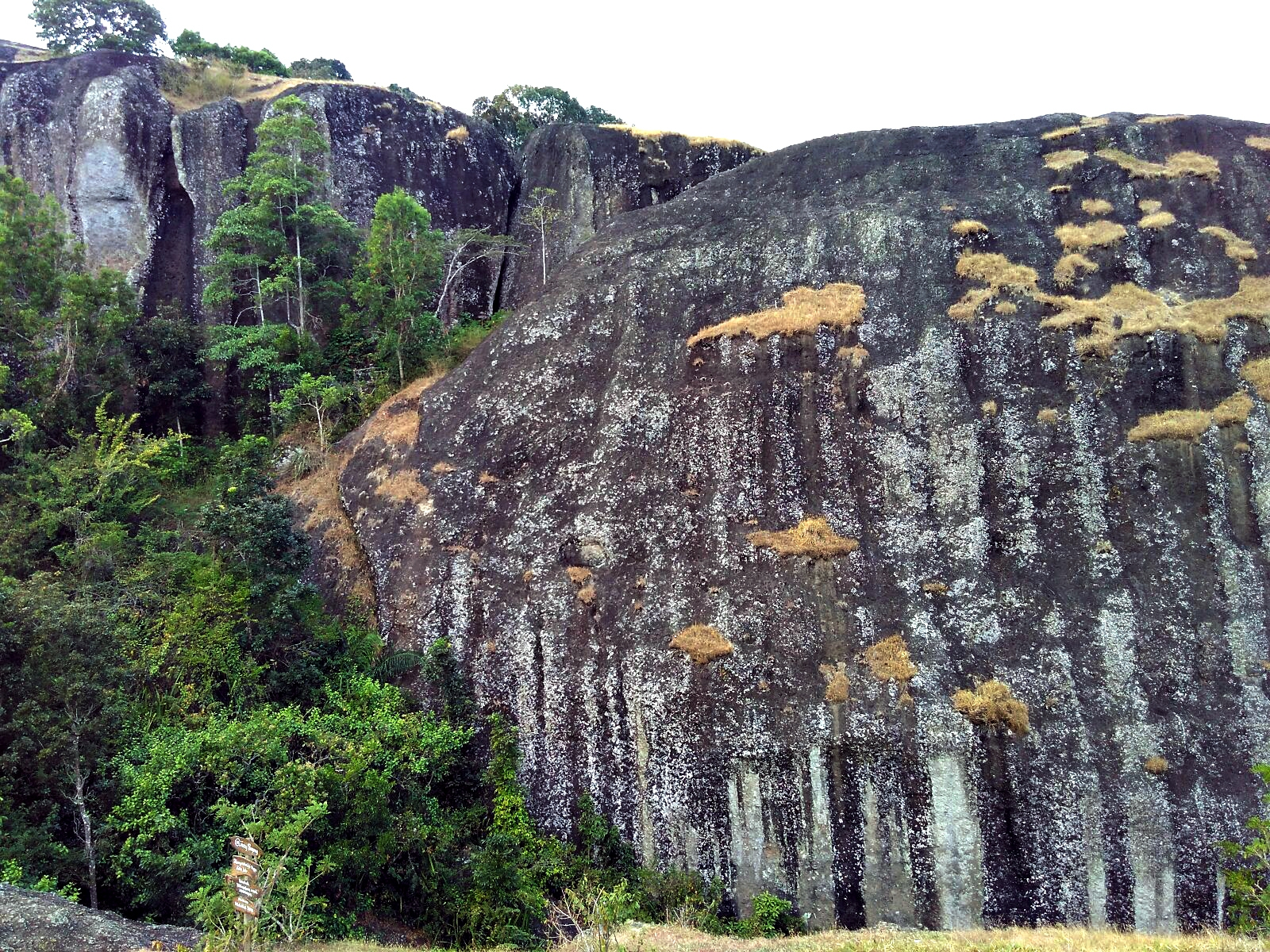 Nglanggeran volcano in Yogyakarta on the island of Java in Indonesia. The outcrops of volcanic rocks, for example breccia and tuff, indicate the presence of an ancient volcano about one million years old. Credit: Erwin Prastowo (distributed via ).